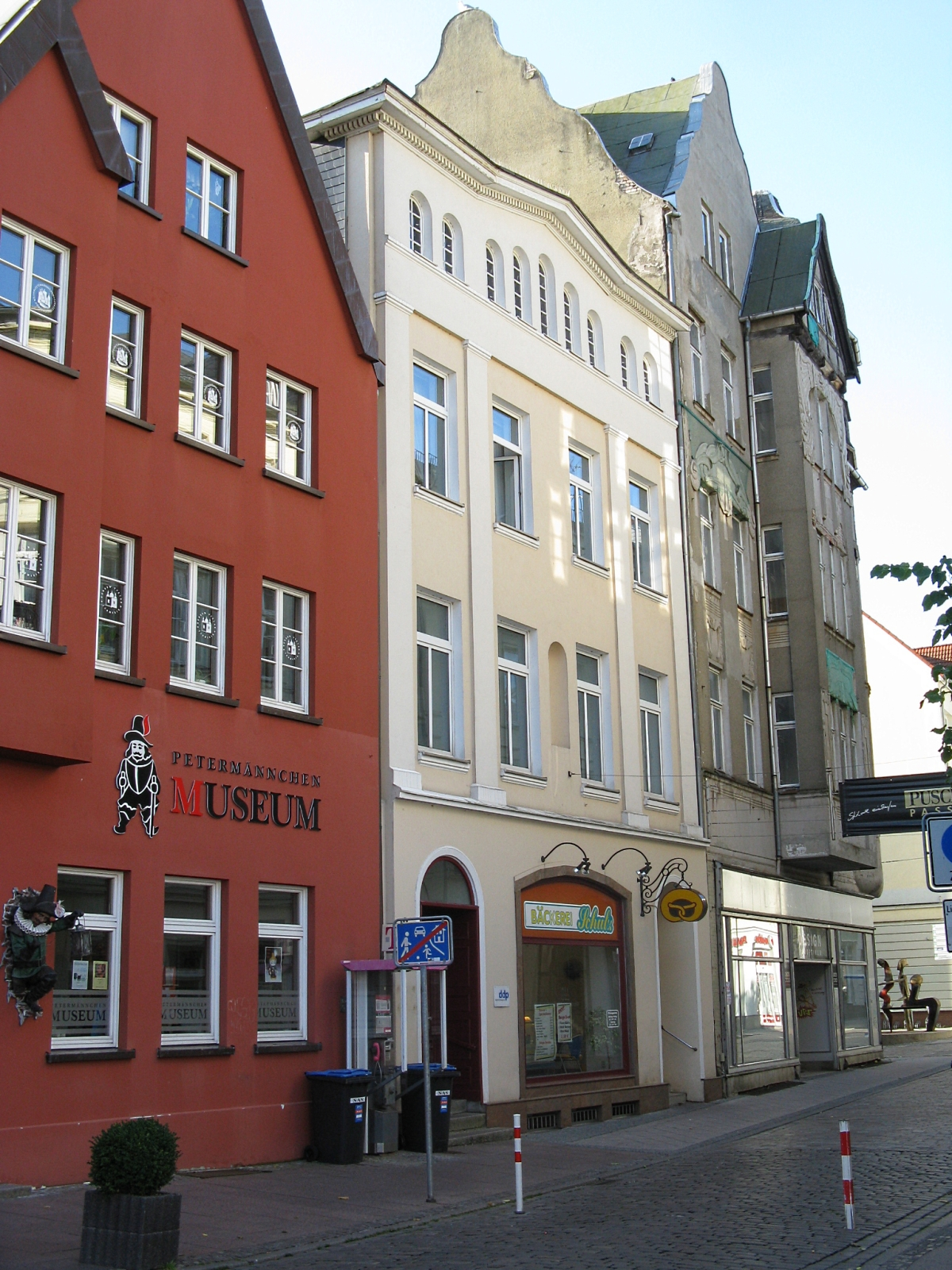 Building at market in Schwerin, Germany - Am Markt 9 (middle)